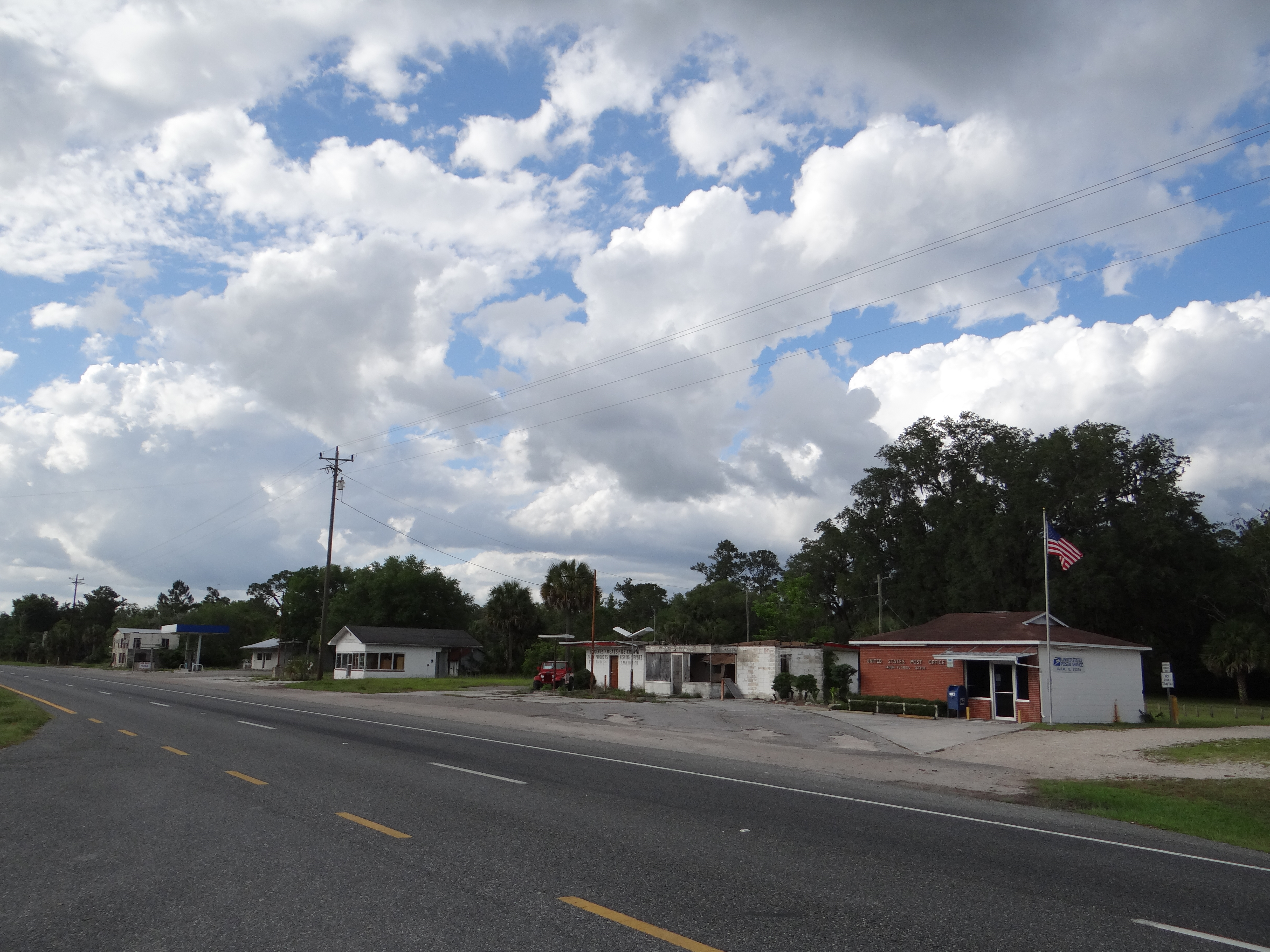 Mostly abandoned town of Salem, Florida. No wiki page currently exists, and it has few things listed on Google Maps.